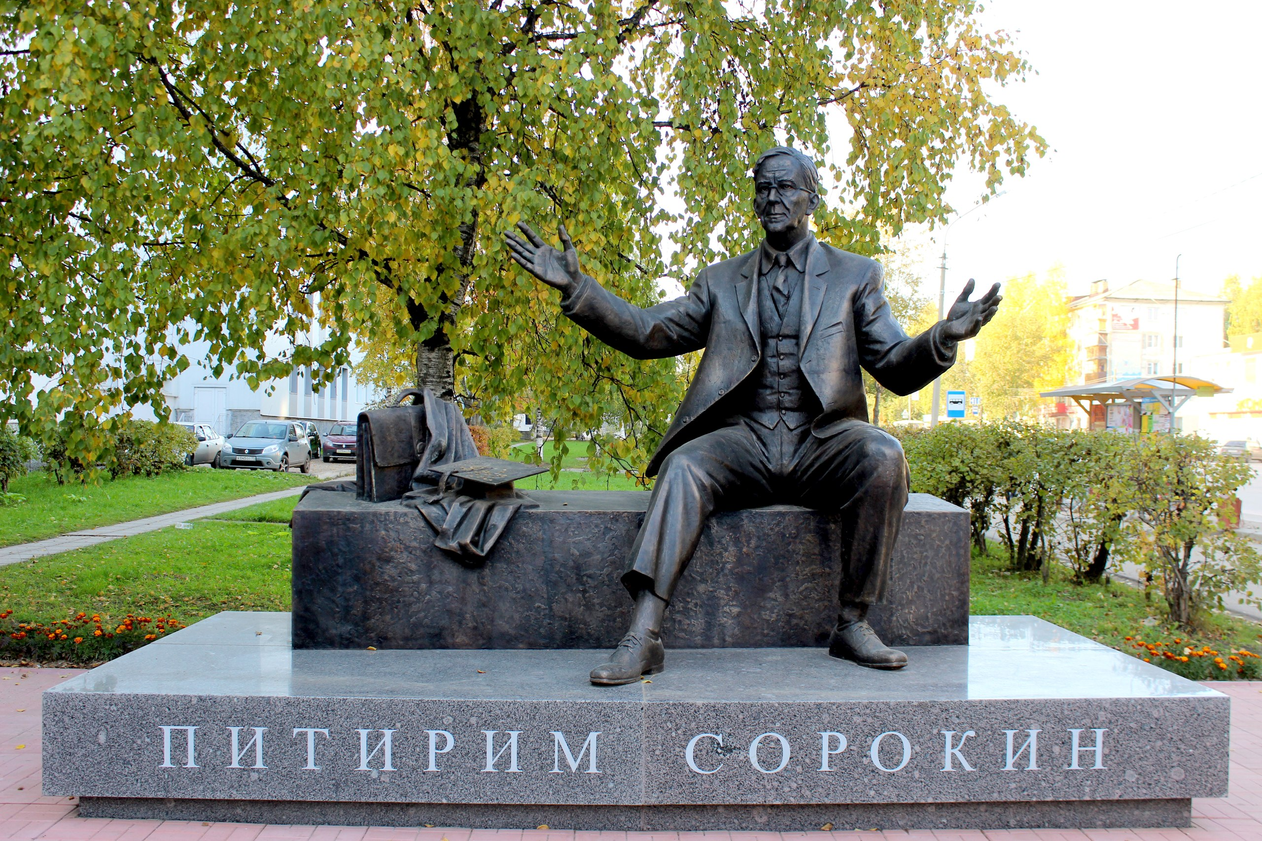 The monument to the famous Russian American sociologist P. A. Sorokin, mounted on the ground in front of Federal State Budget Educational Institution of Higher Education «Syktyvkar State University named after Pitirim Sorokin».